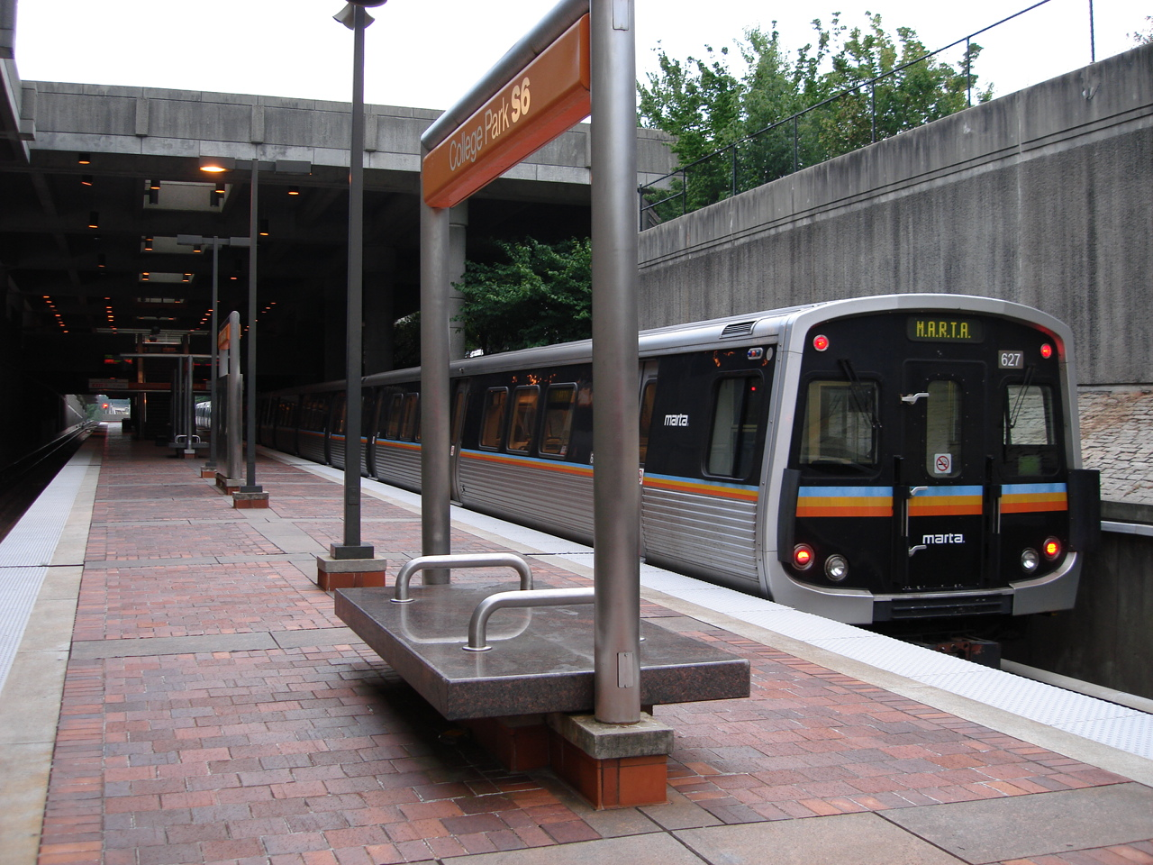 MARTA Train #627 at College Park Station